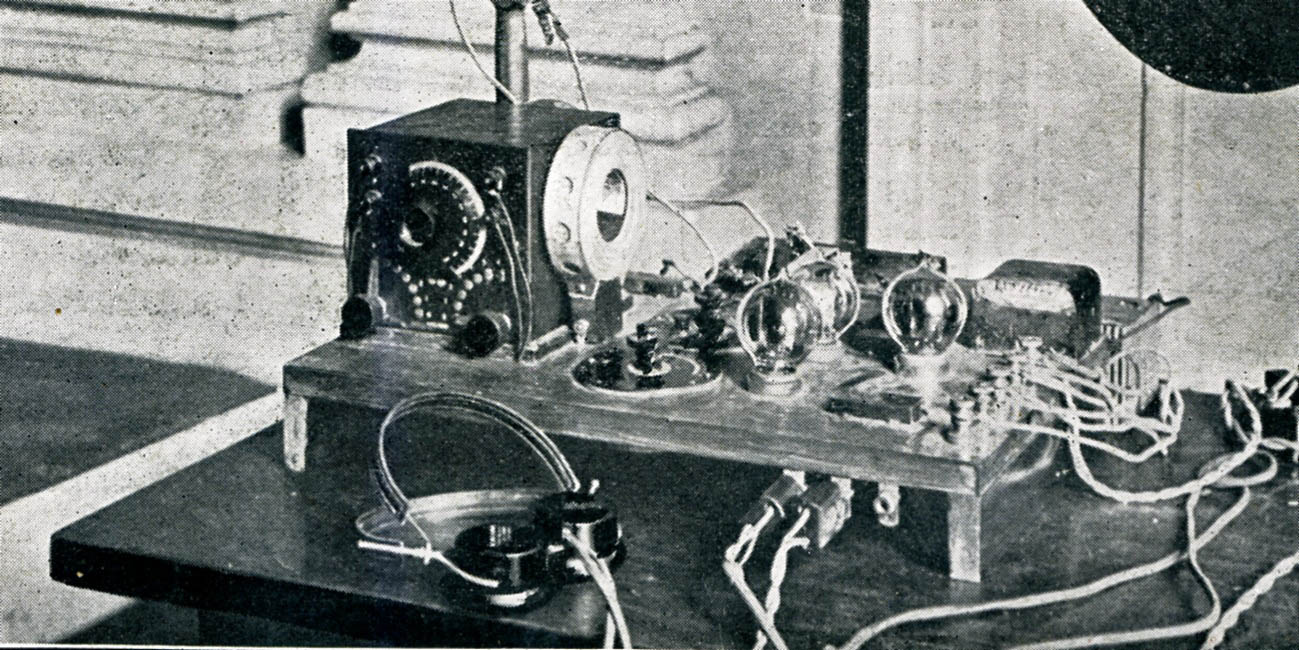 Example of use of a "Breadboard" in electronics construction QST Magazine August 1922